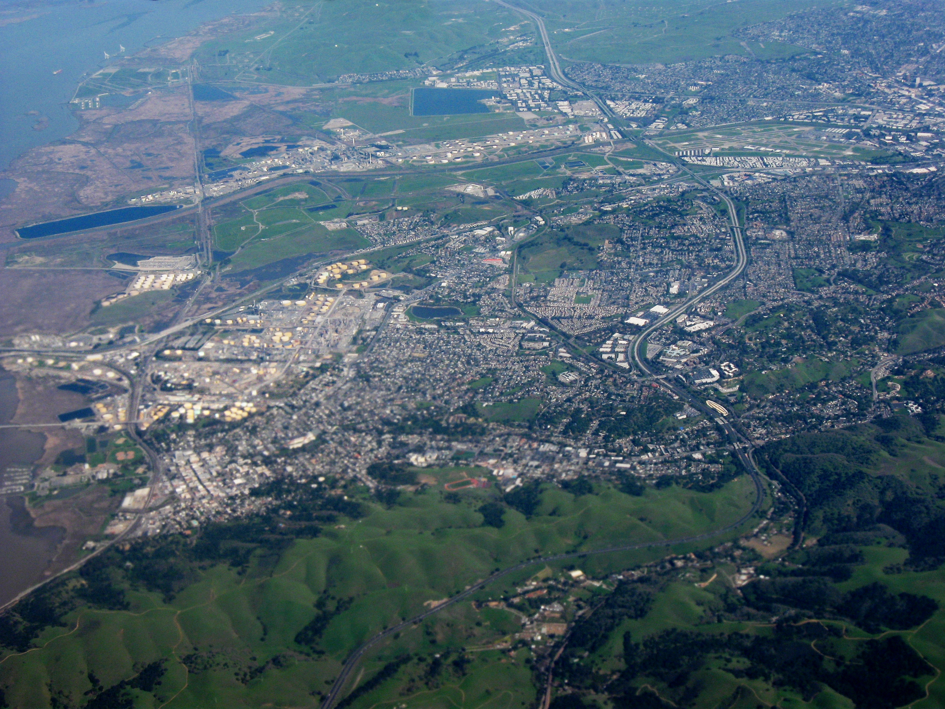 The city of Martinez, California, facing east, with Carquinez Strait on the left side and Highway 4 running up the right side.